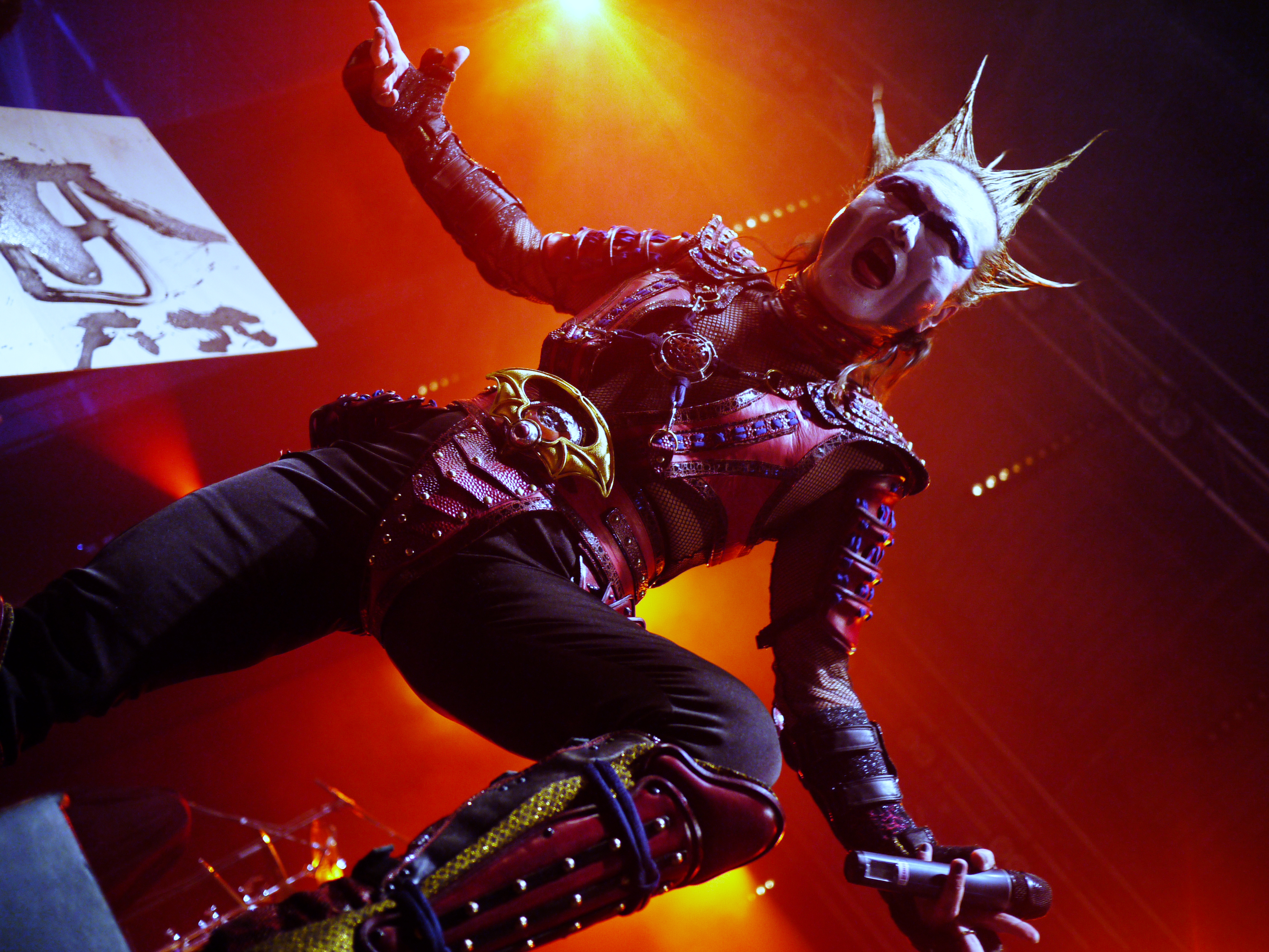 Japan Expo Festival, 11th impact